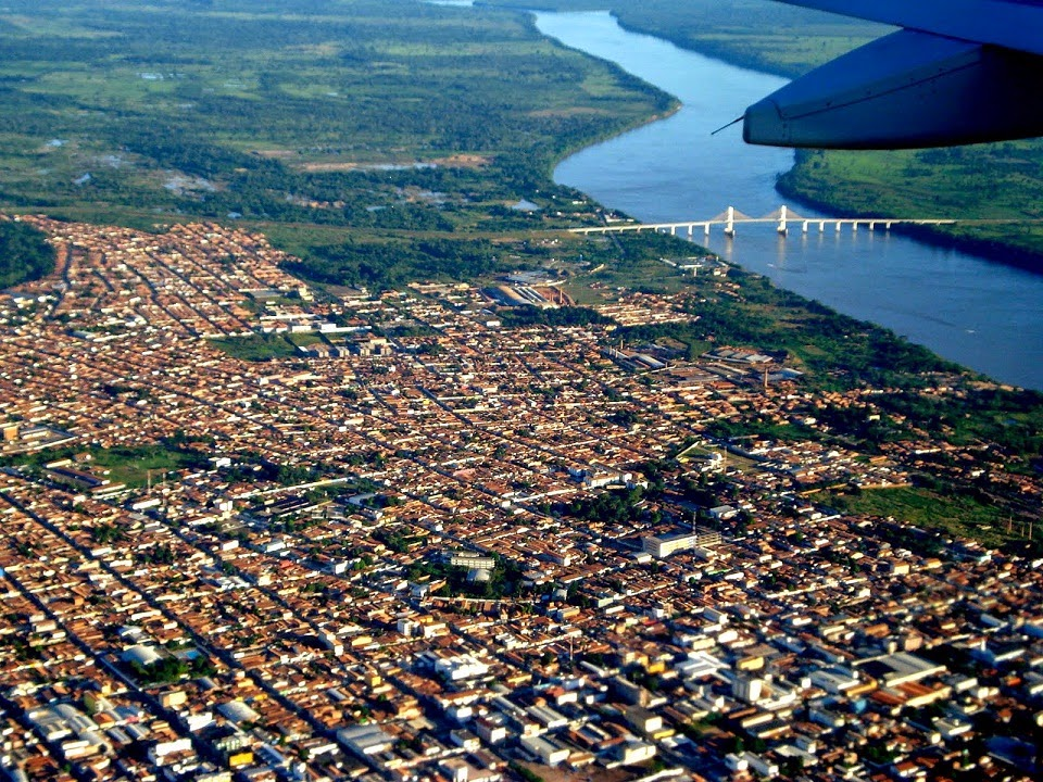 Imperatriz MA